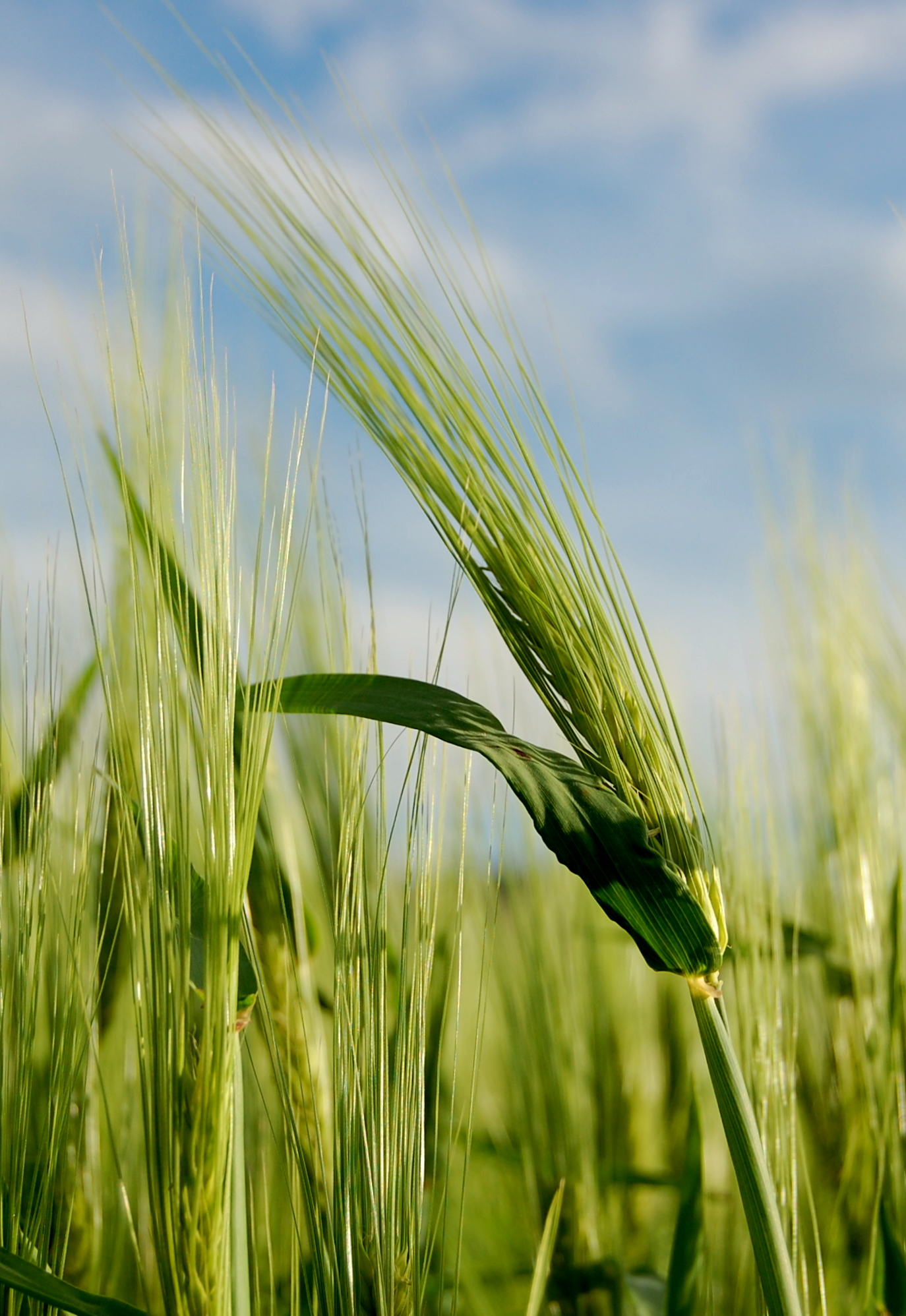 Four-row barley